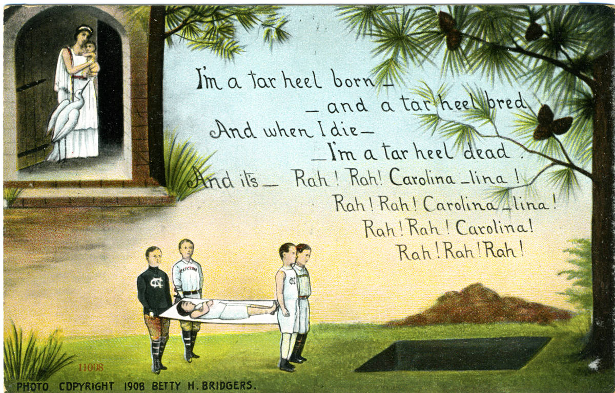 [Lyrics from 'Hark the Sound'], ca. 1908. From the North Carolina Postcard Collection (P052), North Carolina Collection Photographic Archives, Wilson Library, UNC-Chapel Hill, via the North Carolina Postcards digital collection